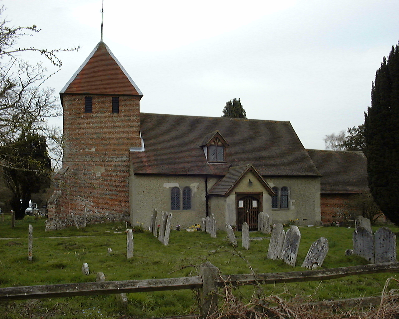 St. Peter's church, Tadley, England. The picture was taken at approximately 13:00 UTC on an overcast day, using a Toshiba PDR-M1 digital camera in Auto mode.